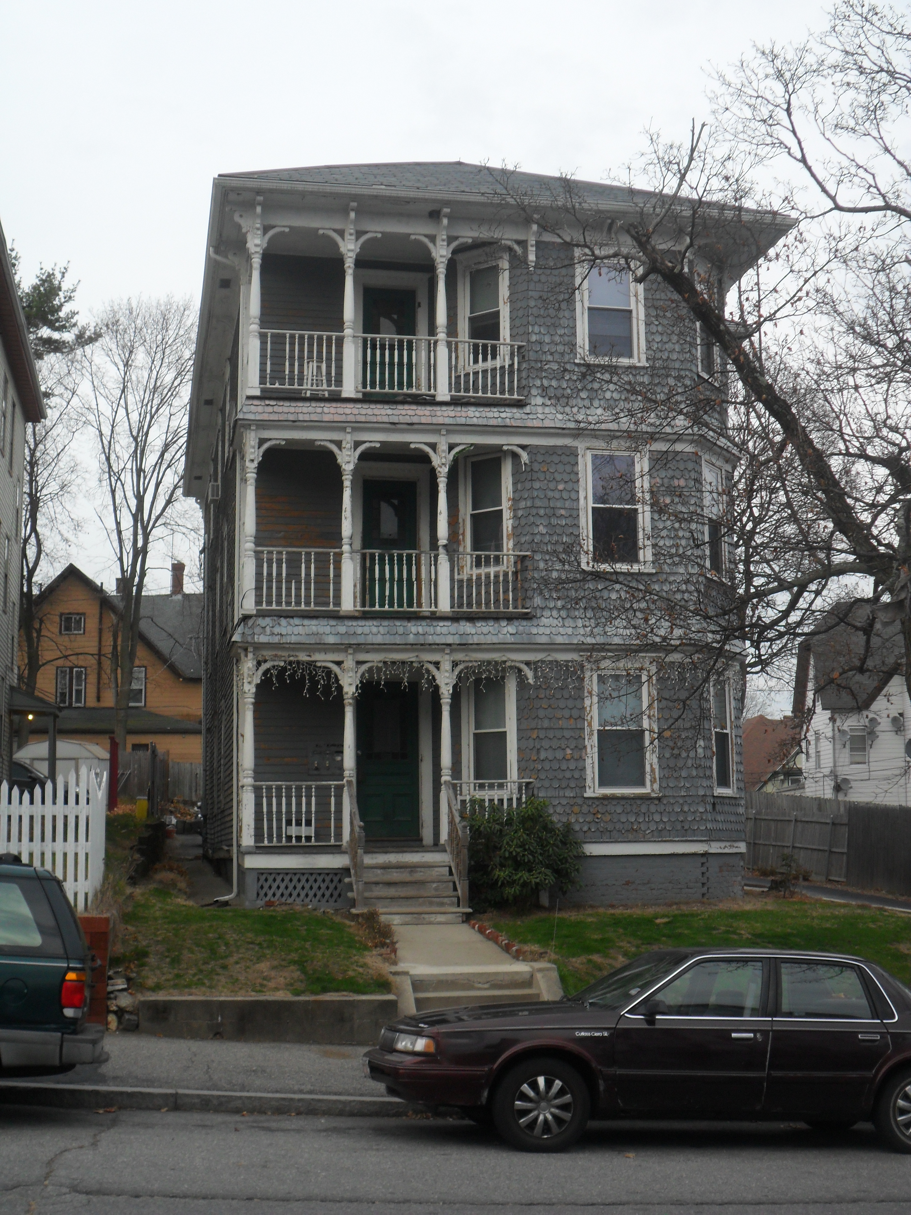 The Front of 9 Wyman St. in Worcester, MA, otherwise known as the Daniel Hunt Three-Decker.